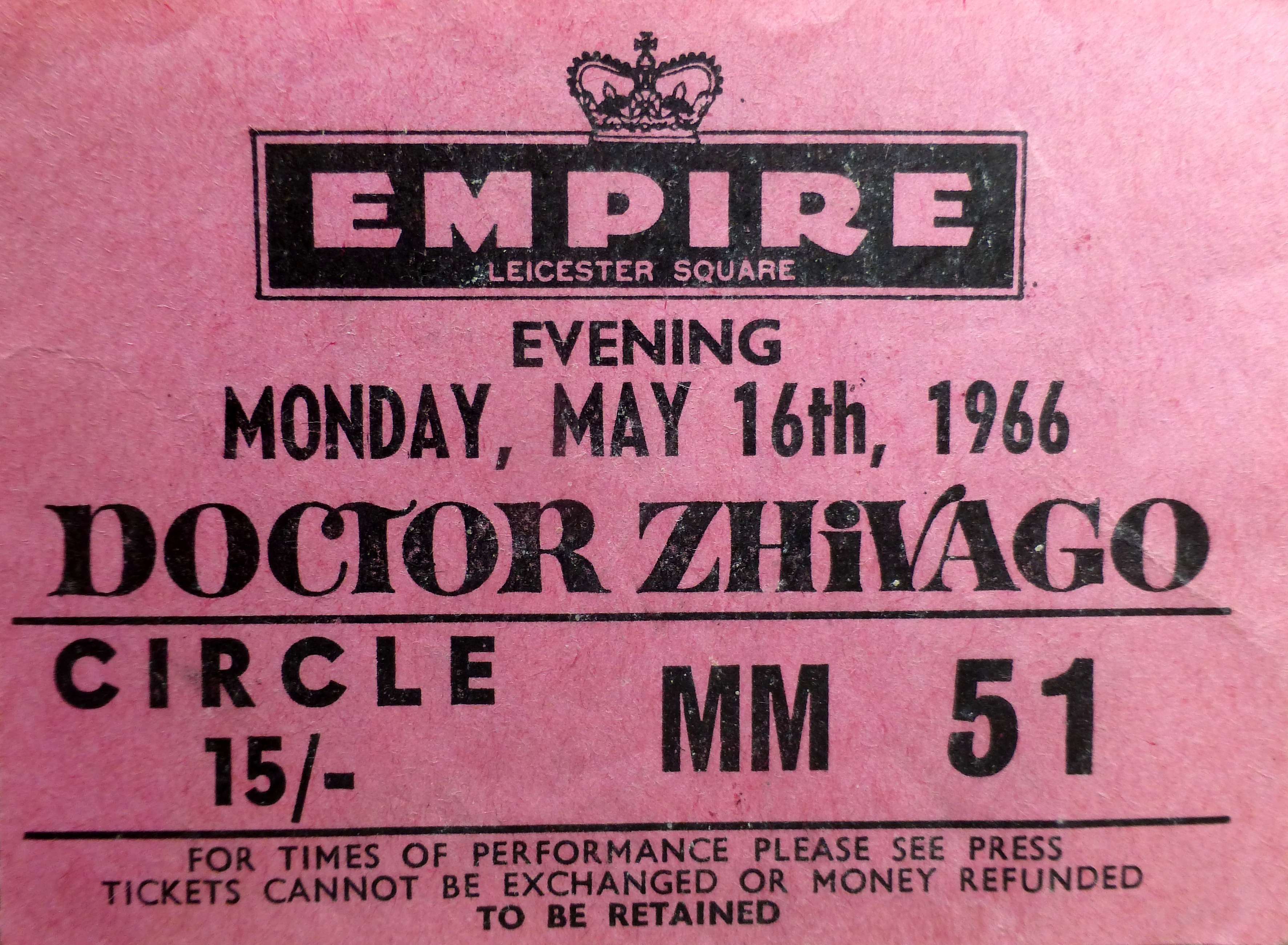 Movie ticket Empire Theatre, Leicester Square, London 1966; 6,2 x 8,6 cm